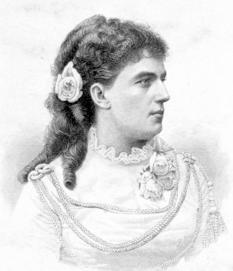 German opera singer Hedwig Reicher-Kindermann (1853-1883) by August Weger (1823-1892).